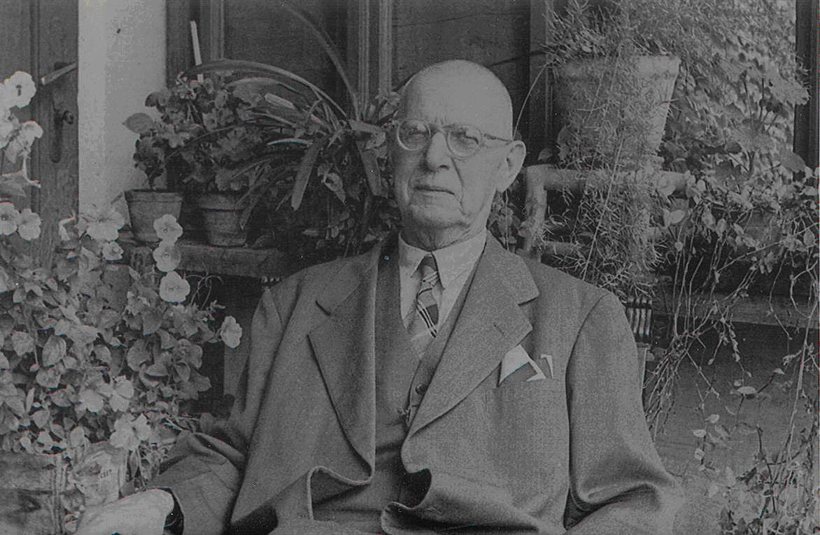 Málnási Bartók György Hungarian philosopher